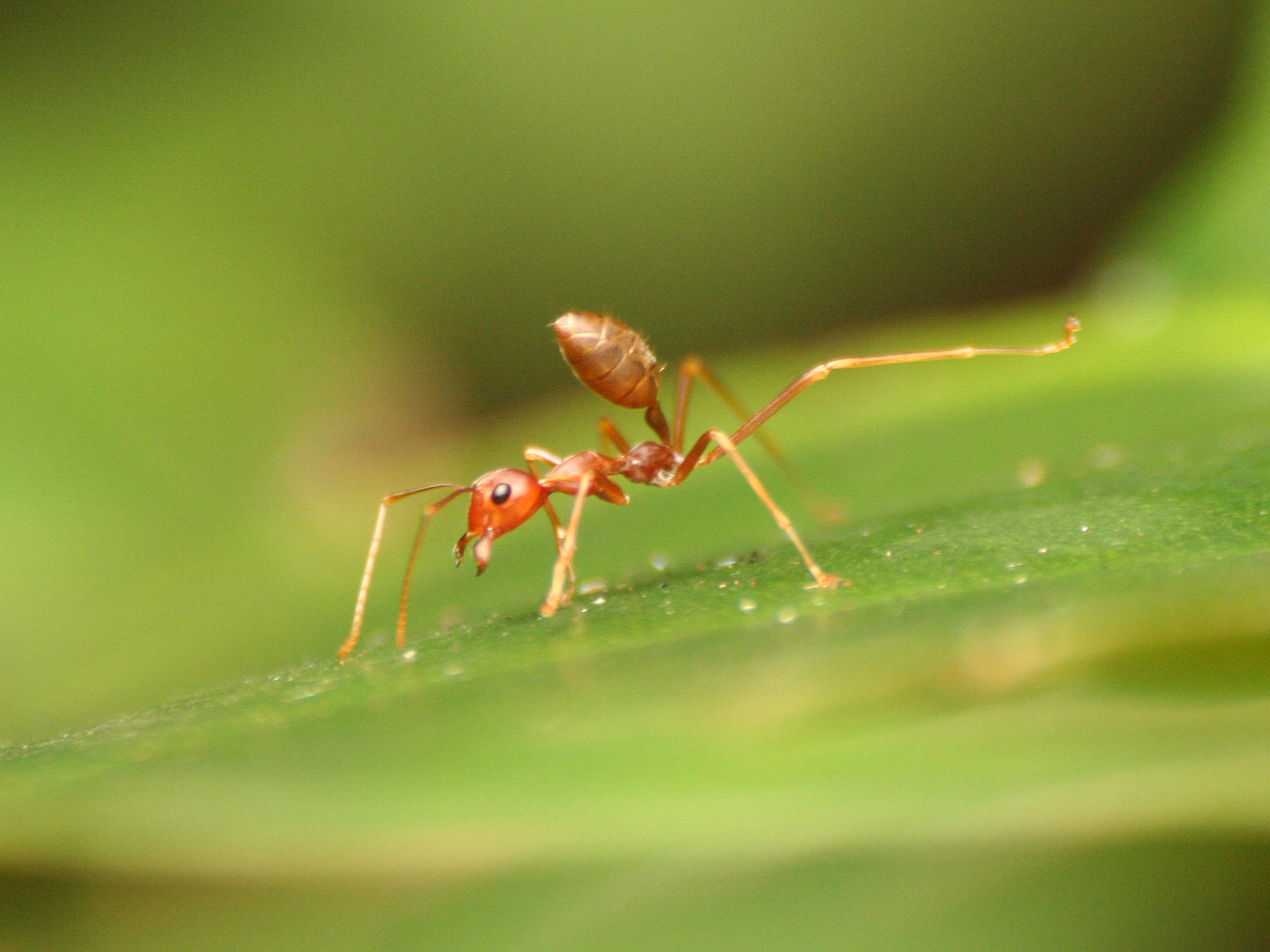 Oecophylla shot in Gombe (Gabon). (by Axel Rouvin)